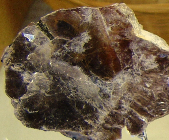 Mica-muscovite I took this photo in october 2005